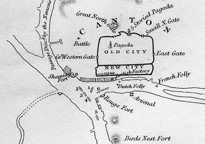 Forts of Canton in 1844